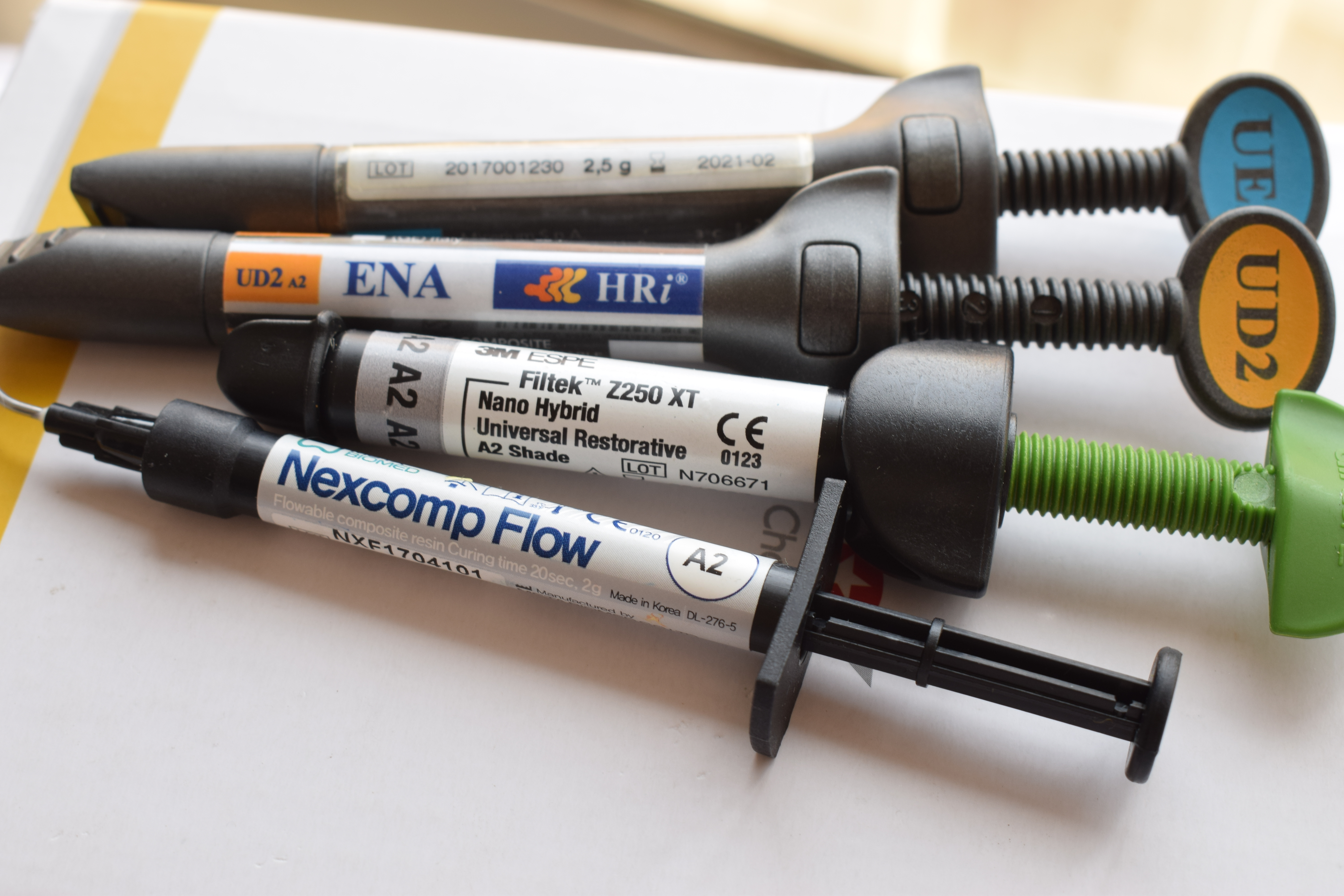 Composite dental material